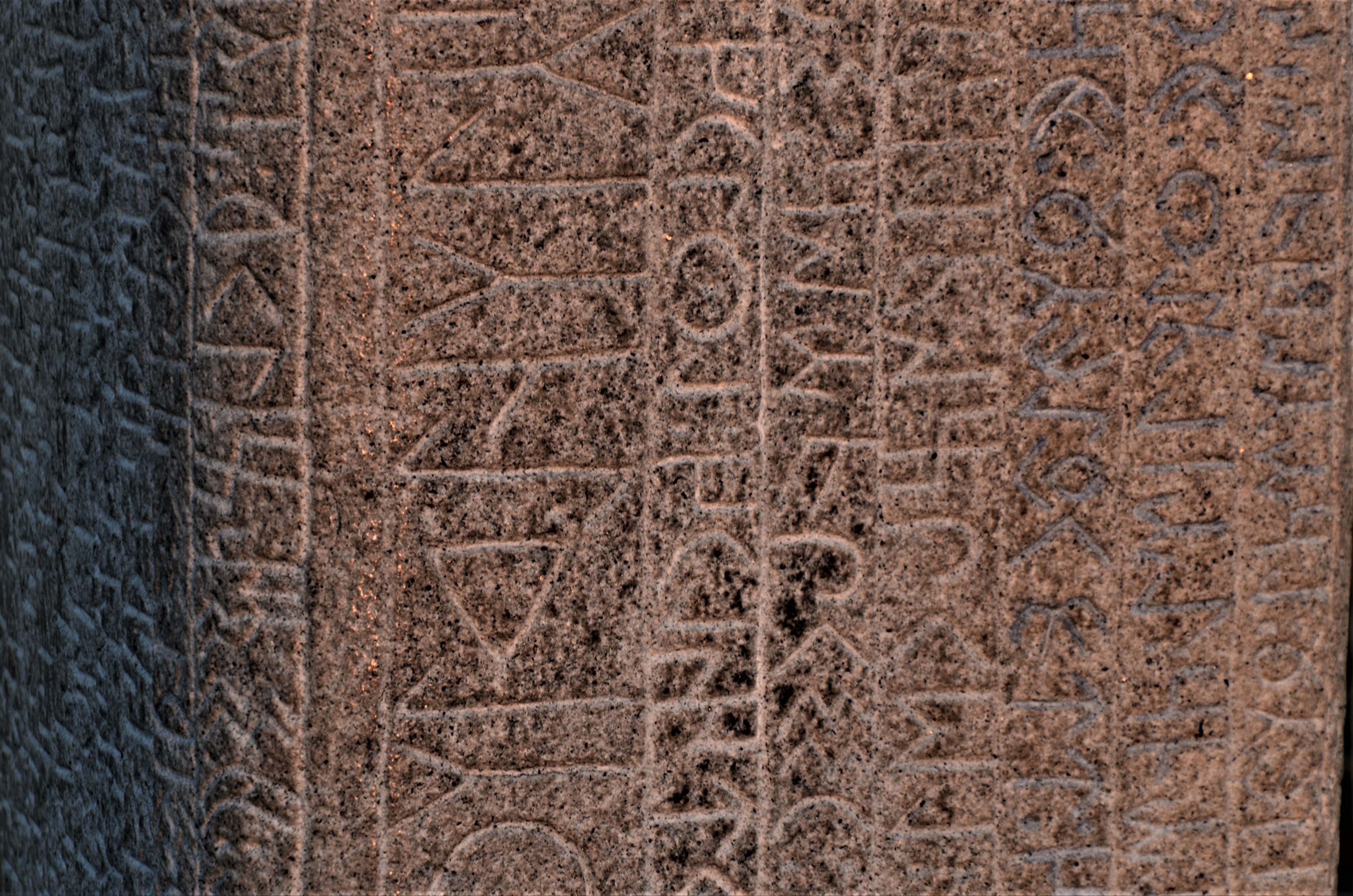 Turkic inscriptions of the 8th century pn two steles dedicated to Bilge Tonyukuk in Mongolia.